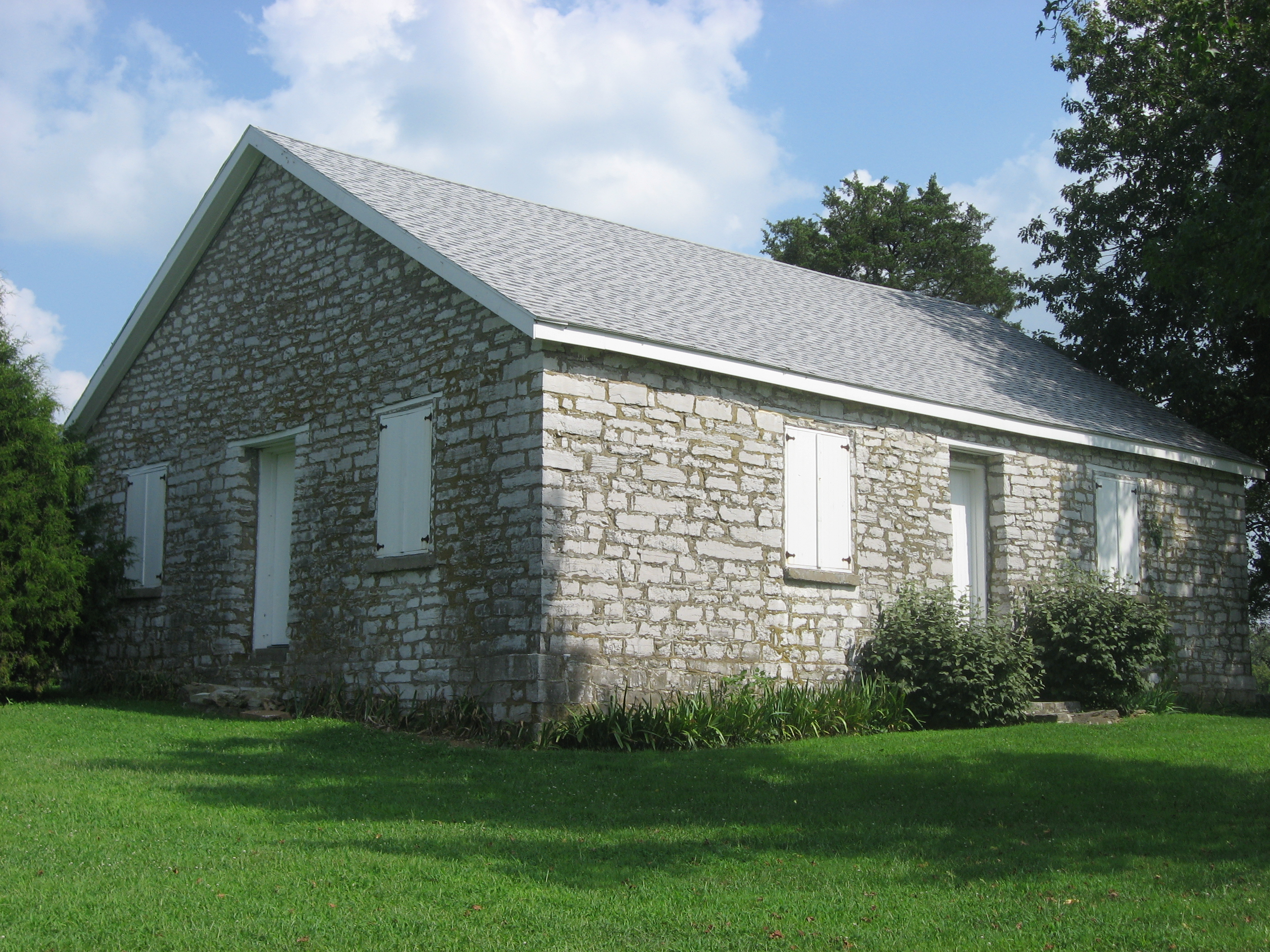 Northern and western sides of the Ebenezer Presbyterian Church, located at the end of Ebenezer Church Road southwest of Keene in Jessamine County, Kentucky, United States. Built in 1803, it is listed on the National Register of Historic Places.